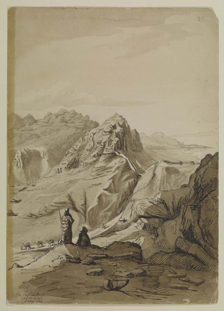 'The main pass, Aden.' By Sir Henry Yule A view of Aden by Yule, likely drawn in January 1844 during his return journey to India.